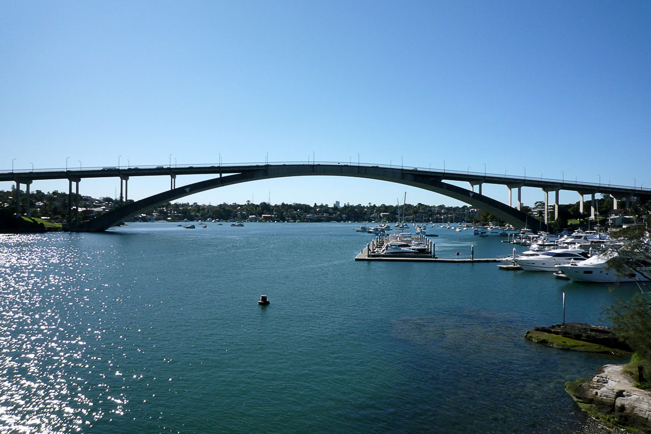 Gladesville Bridge